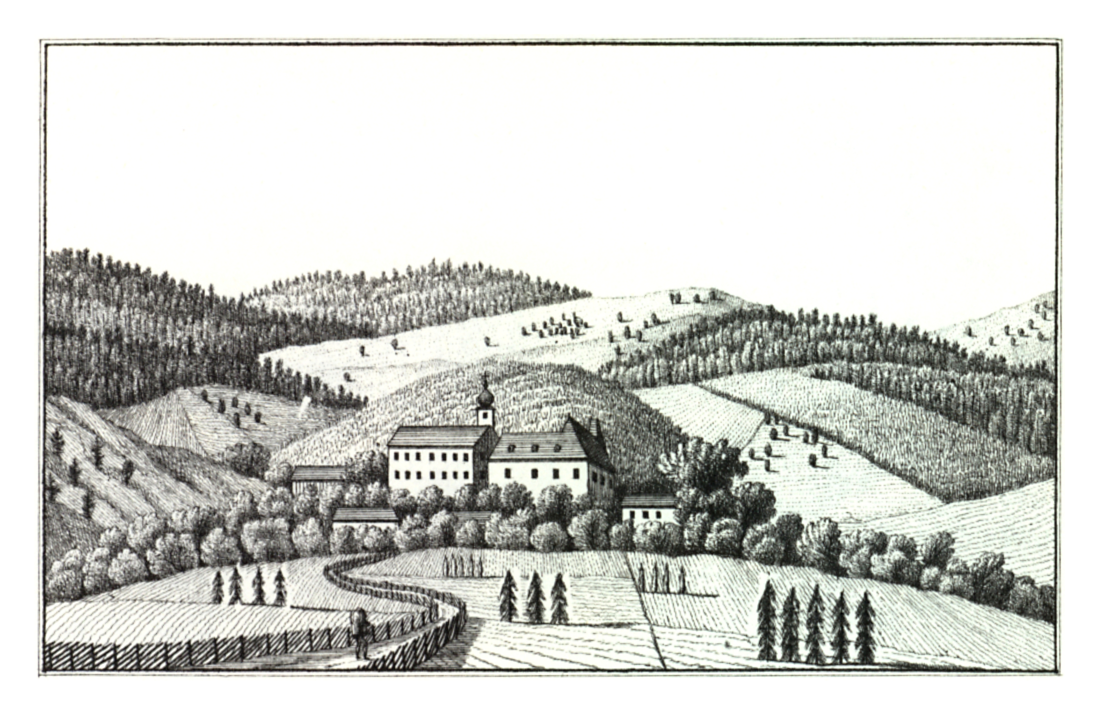 J. F. Kaiser - lithographirte Ansichten der Steyermärkischen Städte, Märkte und Schlösser Graz, 1825 Scanprojekt Community Projektbudget 2012 This scan or this PDF-file was created within the GLAM-project Bookscanning, supported by Wikimedia Germany and Wikimedia Austria as a part of the community-project to capture books, documents and pictures which are not eligible to copyright or for which the copyright has expired. This document describes or depicts an object which is located in Austria today. Send requests for uncompressed scans to Hubertl. This work is in the public domain in its country of origin and other countries and areas where the copyright term is the author's life plus 100 years or less. You must also include a United States public domain tag to indicate why this work is in the public domain in the United States. This file has been identified as being free of known restrictions under copyright law, including all related and neighboring rights.